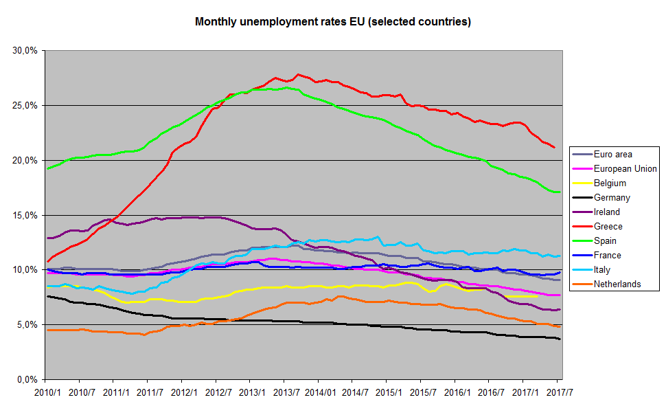 Monthly development of unemployment rates in the EU, the Eurozone and a number of Eurozone member states. Source: Eurostat, table teilm020. With the kind assistance of Eurostat for providing the data for 2010 and 2011.